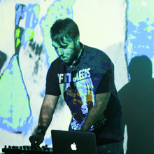 Zalza live Edison 2015